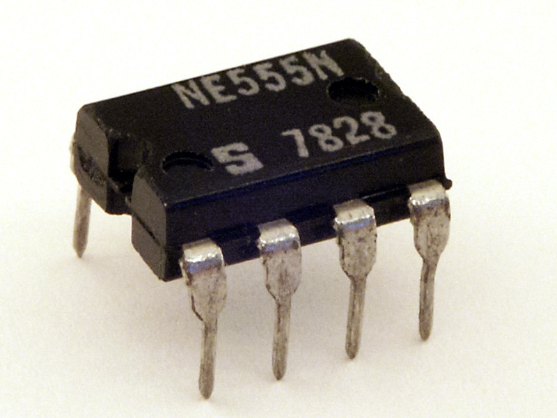 Signetics NE555N, the original 555 type oscillator, in a dual-in-line plastic package, manufactured in 1978 (work week 28)